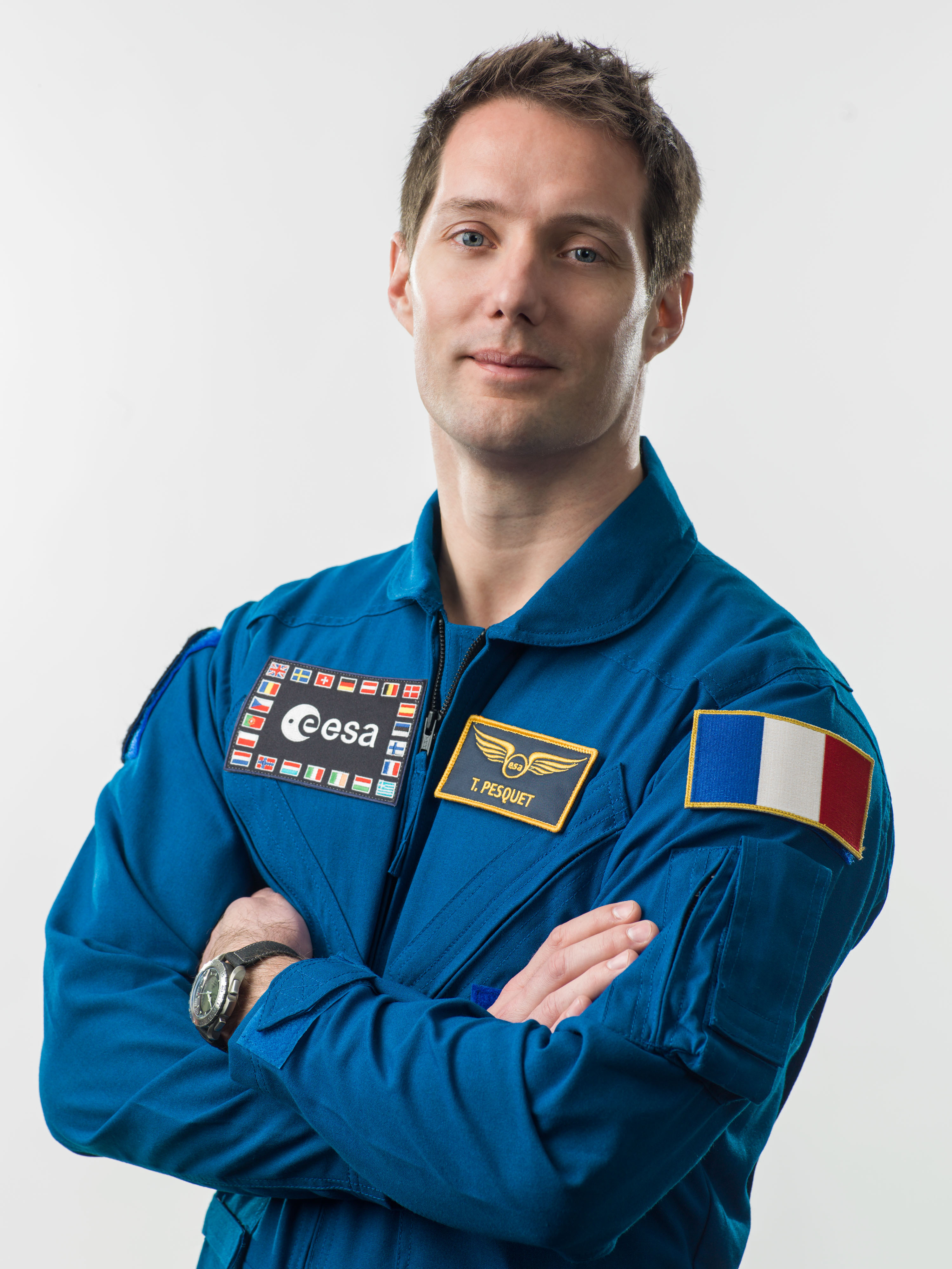 Official portrait of ESA astronaut & Expedition 50/51 crew member Thomas Pesquet in blue flight suit.